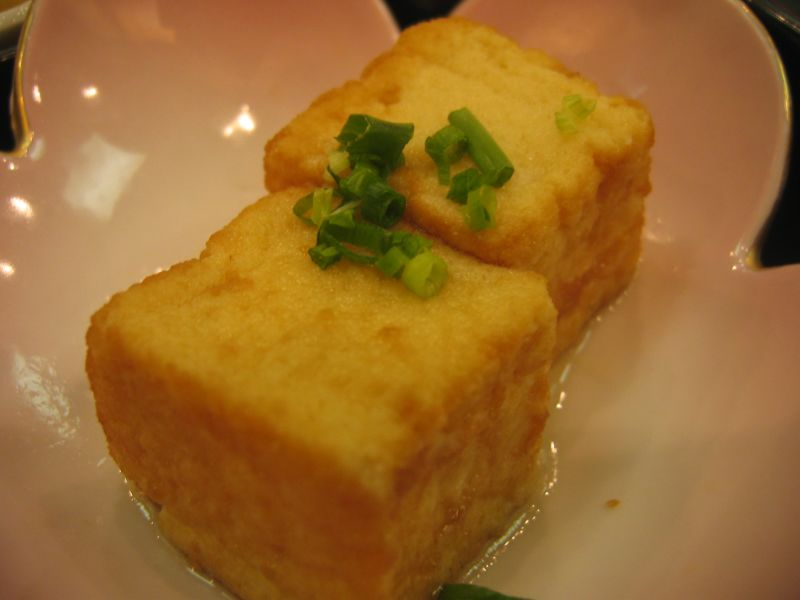 Agedashi tofu.